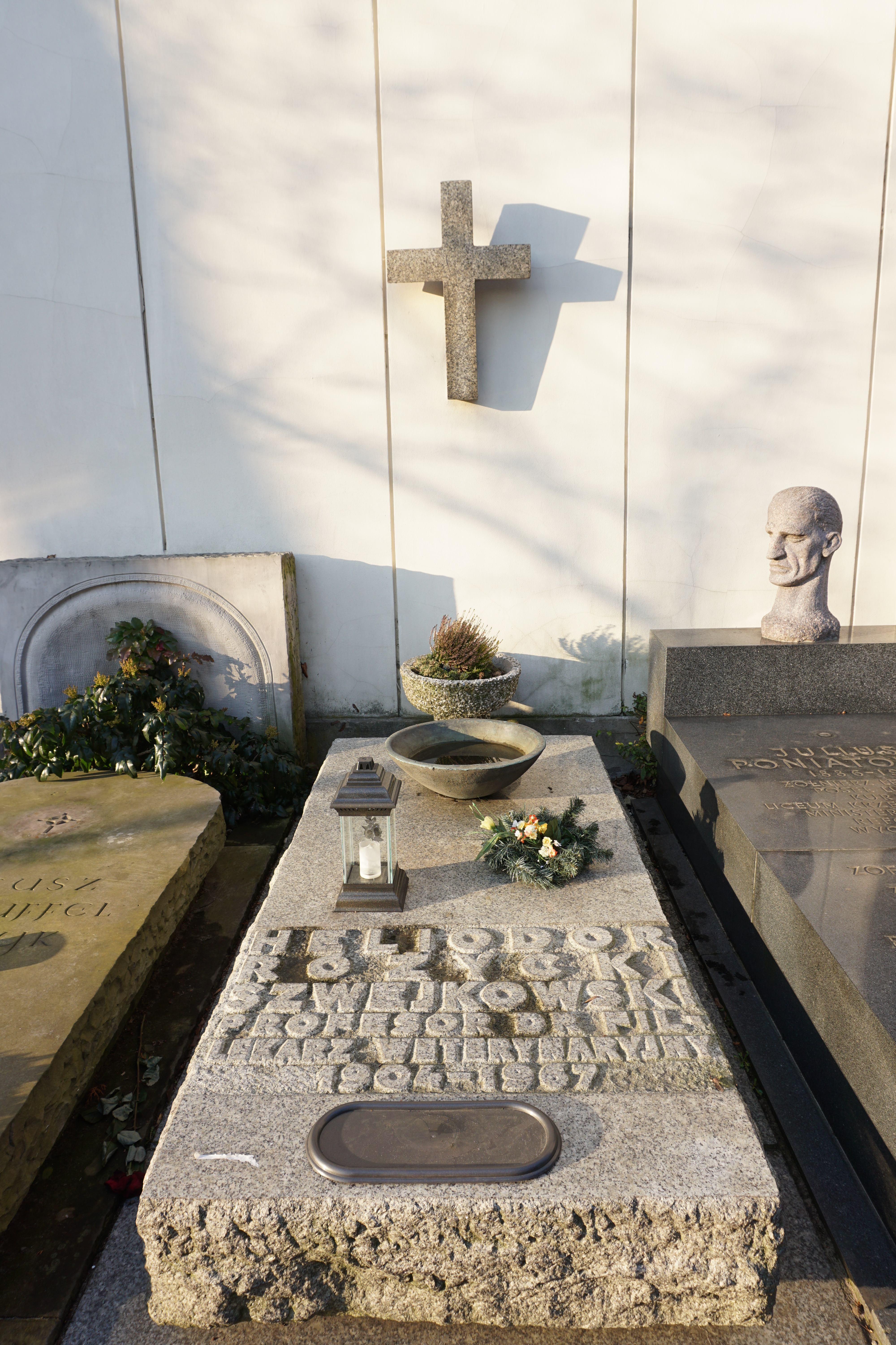 The grave of Heliodor Różycki-Szwejkowski at the Powązki Cemetery (Avenue of Deserved, grave 150)